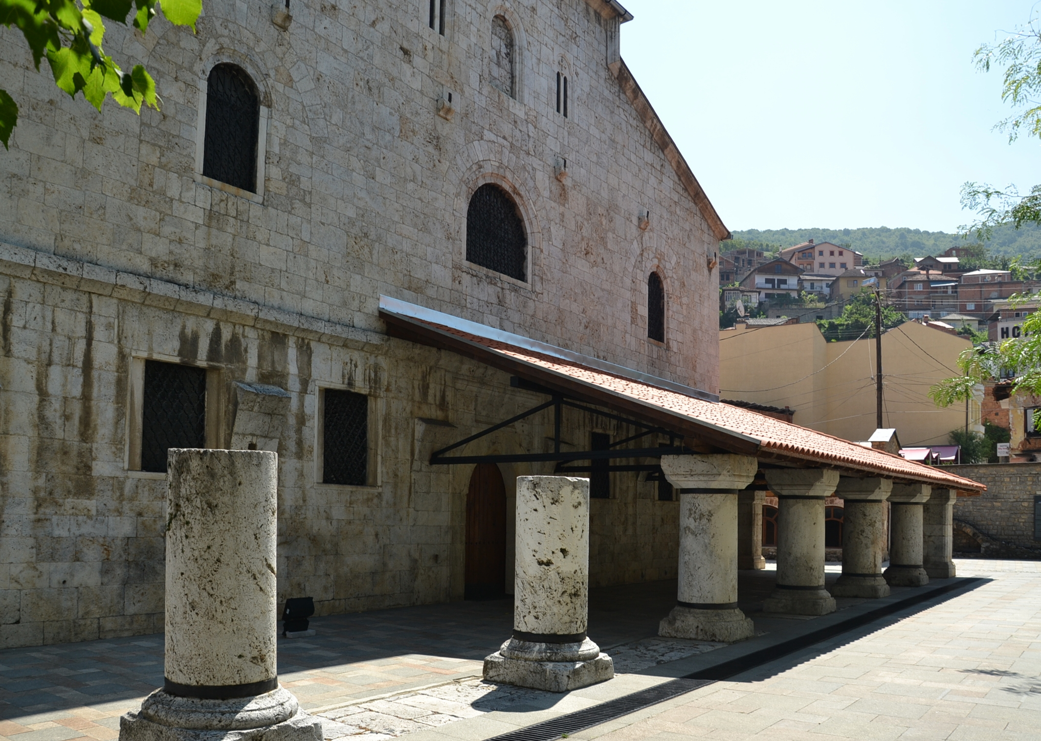 St. George Cathedral in Prizren, Kosovo